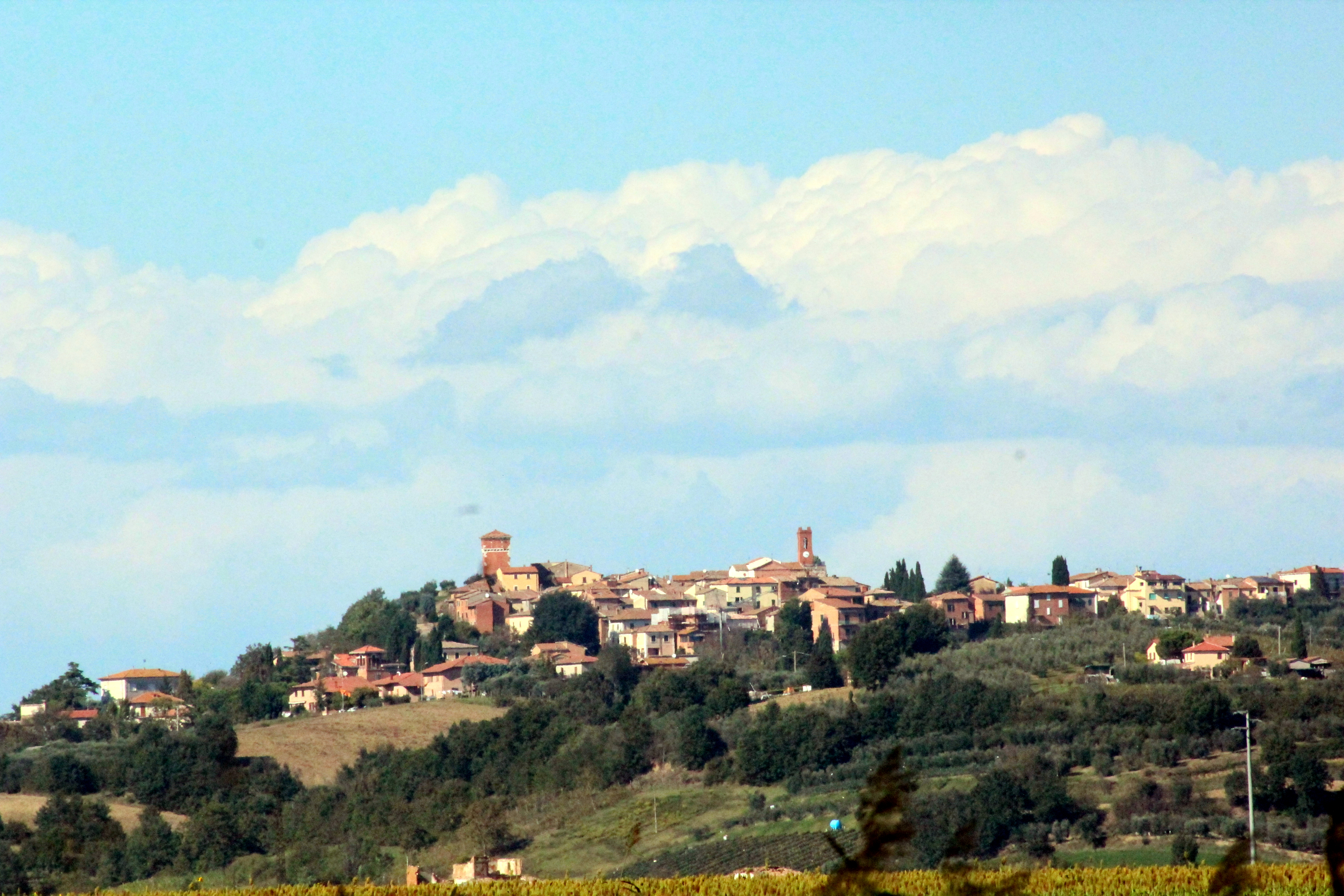 Panorama of Valiano, hamlet of Montepulciano, Province of Siena, Tuscany, Italy